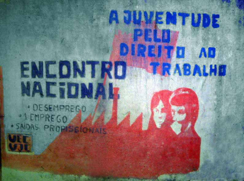 UEC UJC National Meeting